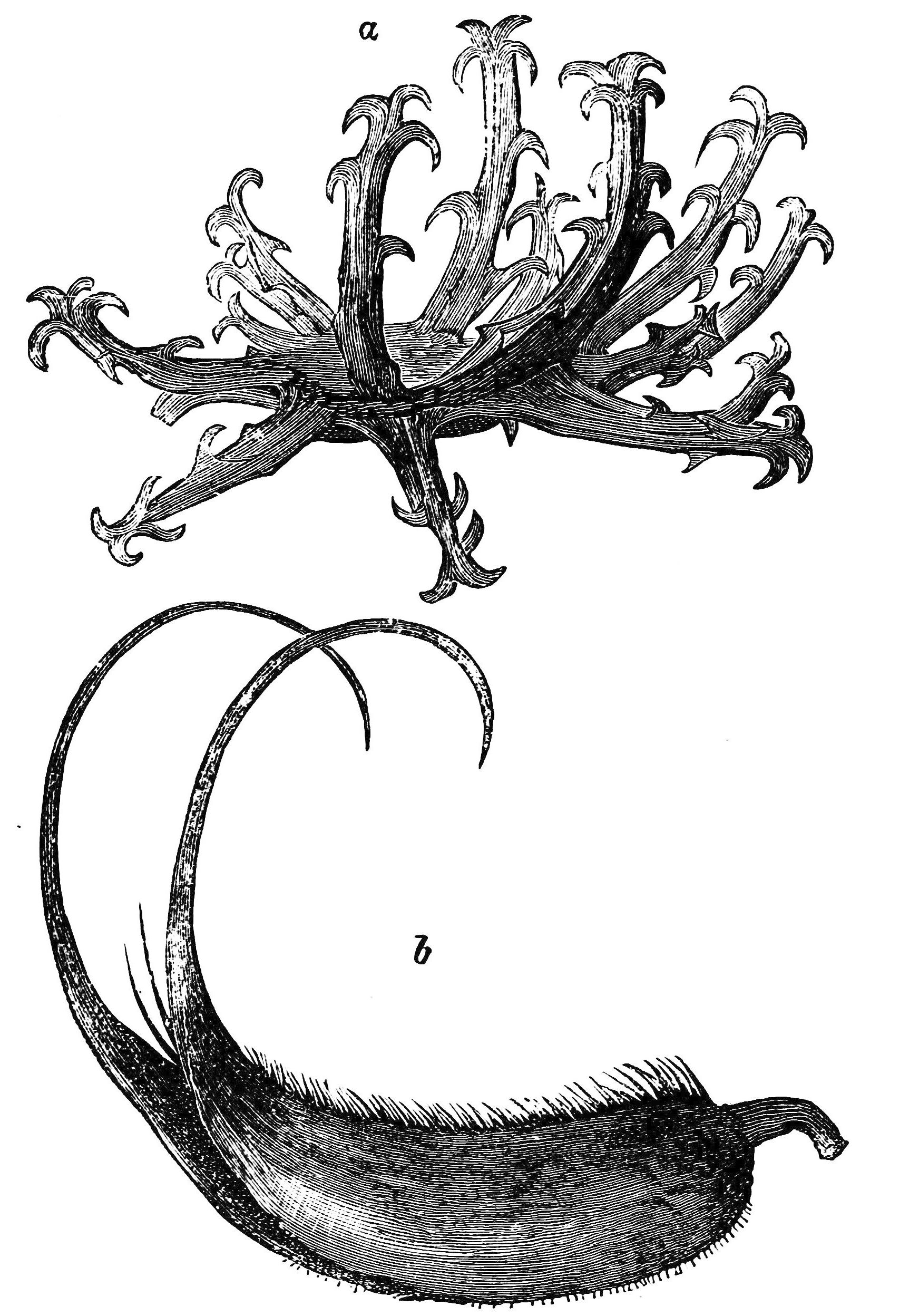 Harpagophyton procumbens and martynia proboscidea